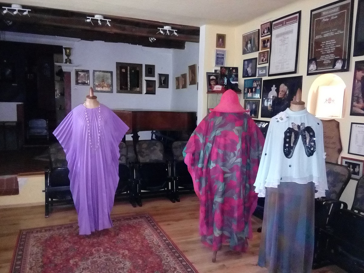 Theatrical costumes in Klári Tolnay Memorial House, village Mohora, Hungary (2019)